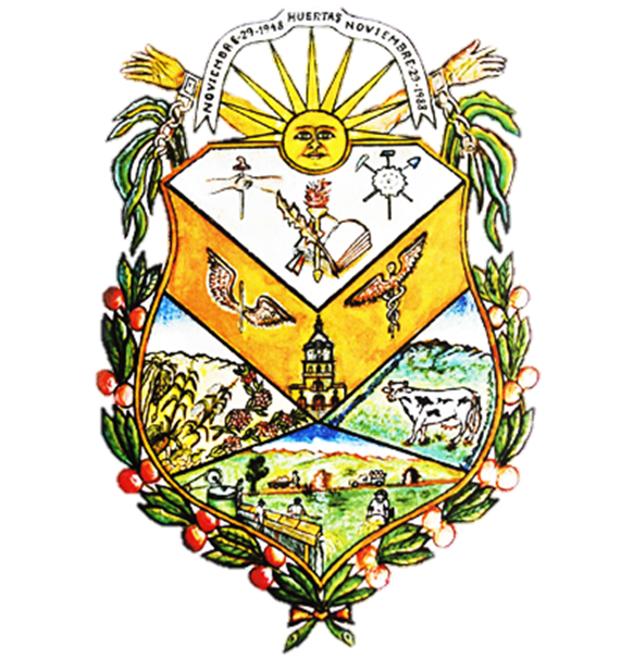 Escudo Huertas